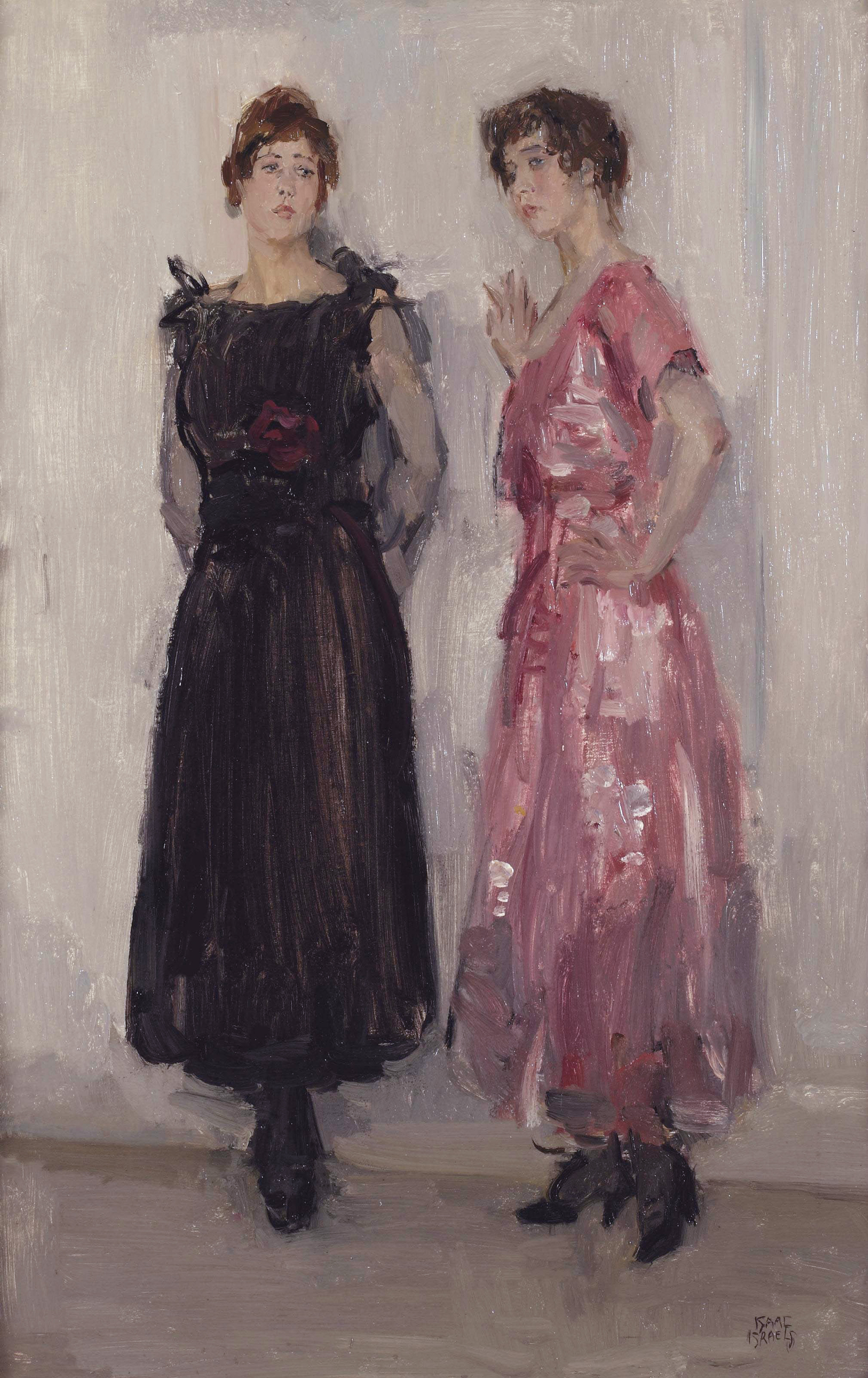 Ippy (1895-1964) and Gertie (1895-1975) Wehmann posing at fashion house Hirsch, Amsterdam